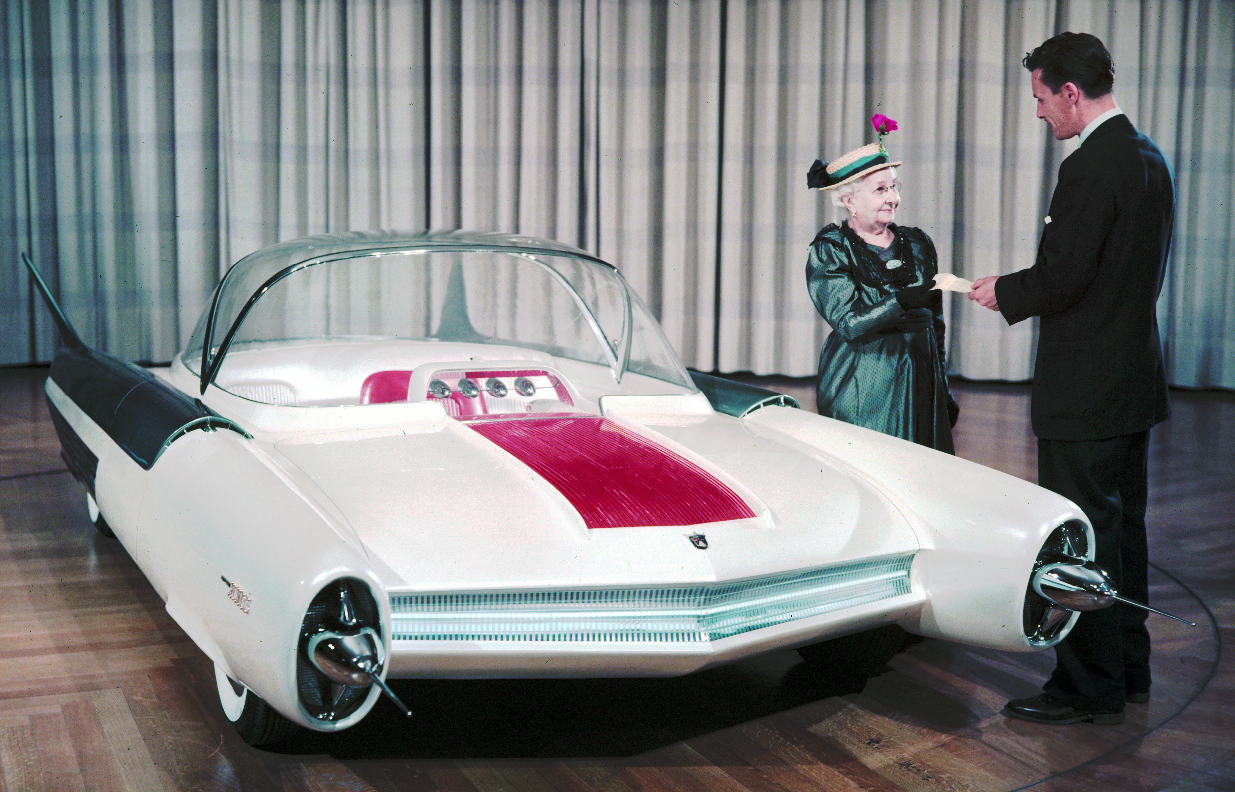 Concept Car Collection